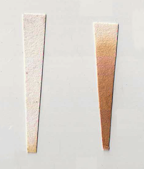 Papers after Sanger—Black test. Left one is from sample without arsenicum (yellow spot is from traces of As, usually found in Zn); right one is from sample which contains arsenicum.